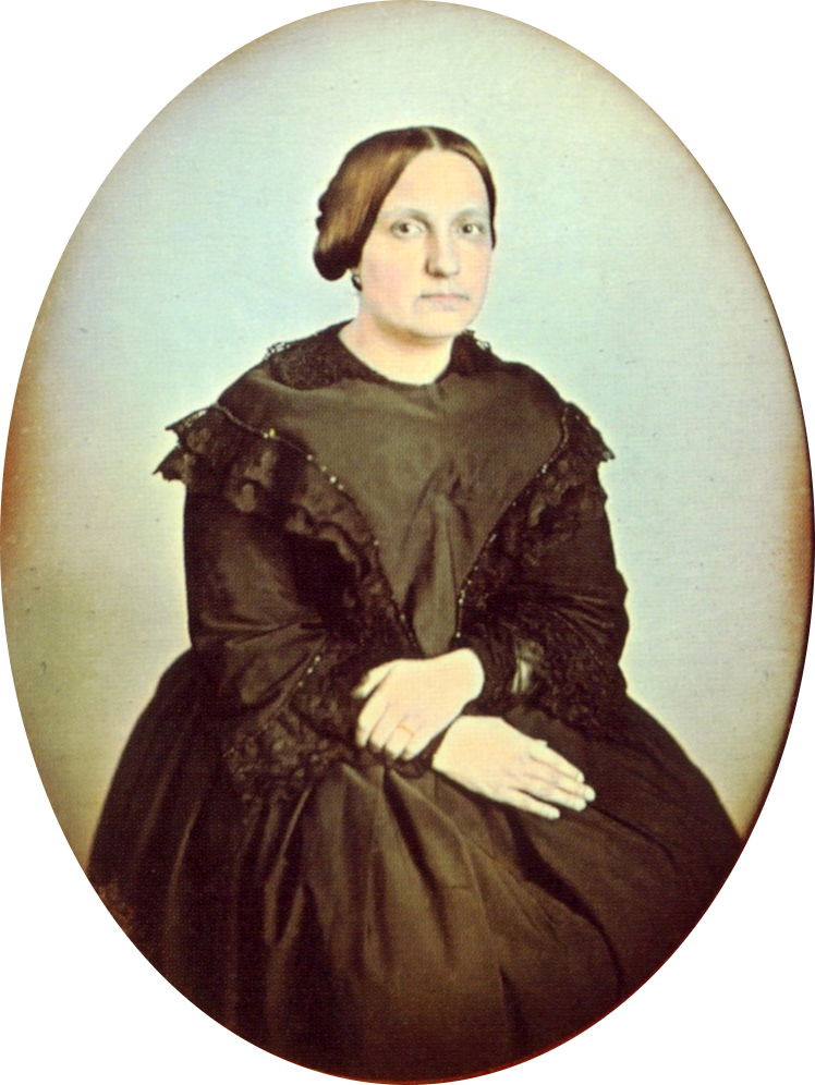 Empress Teresa Cristina of Brazil, c.1851.